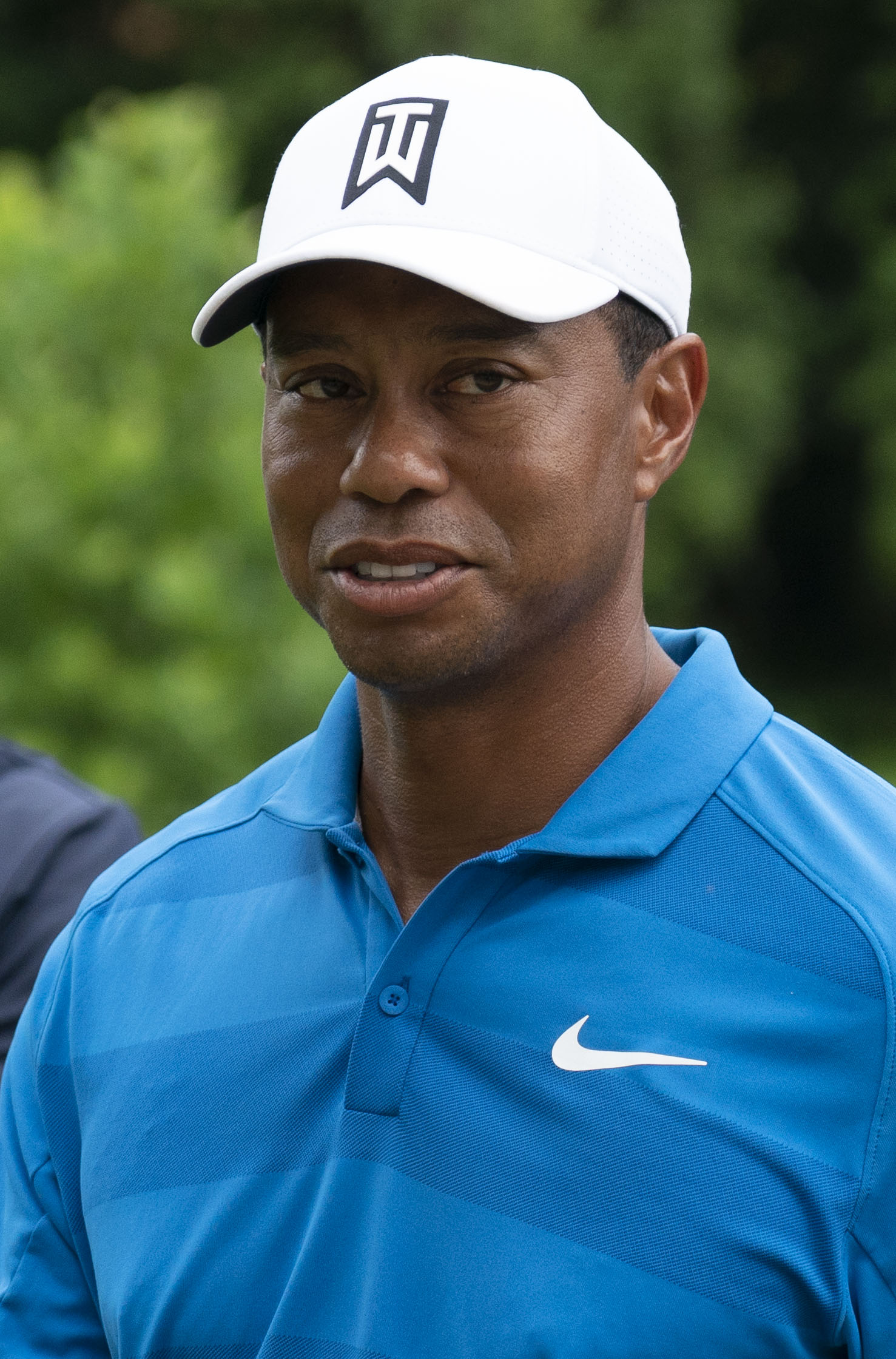 Quicken Loans National 6/27/18